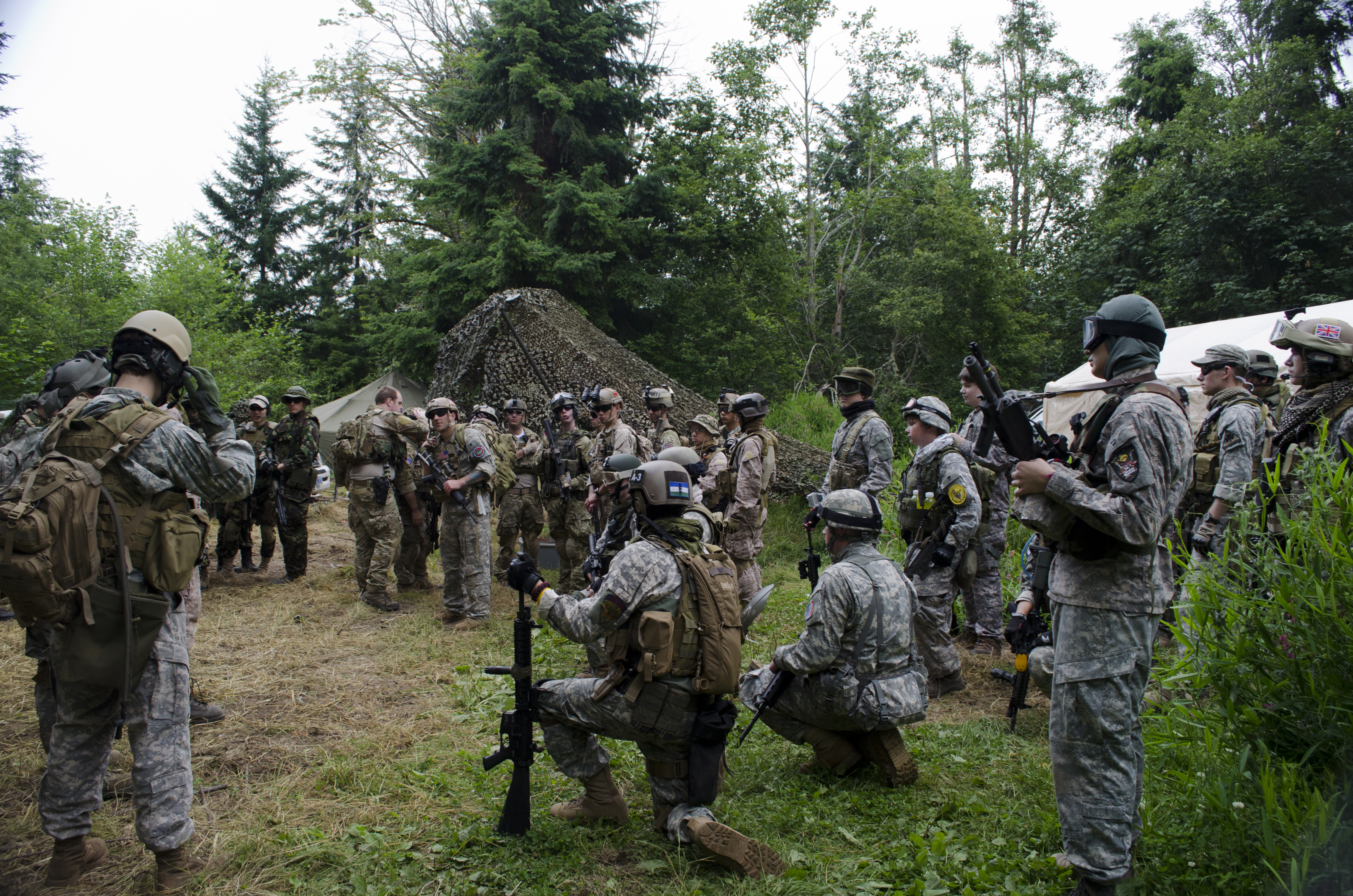 Attendees at MilSim event "Total War", Orting, WA, July 14th 2012